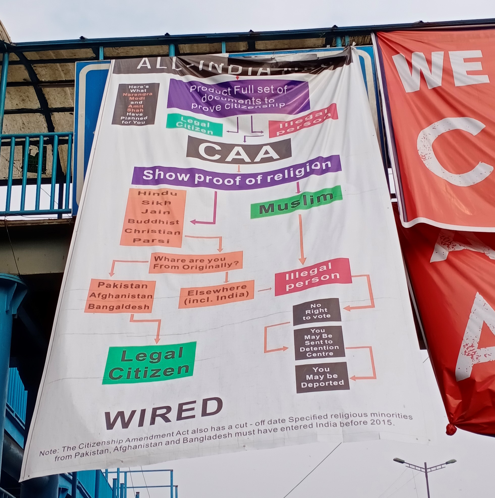 A poster trying to depict the CAA process at Shaheen Bagh protests New Delhi